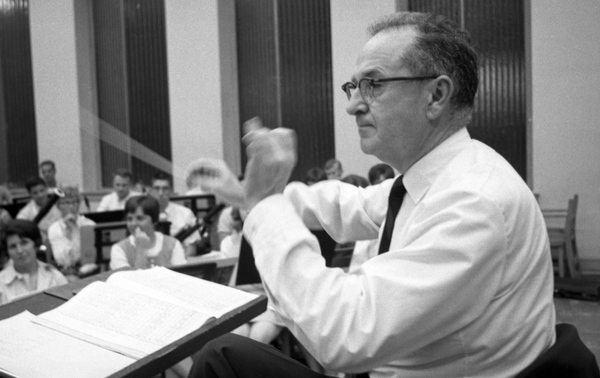 Director Manley R. Whitcomb waves baton for symphony rehearsal to start at FSU in Tallahassee.